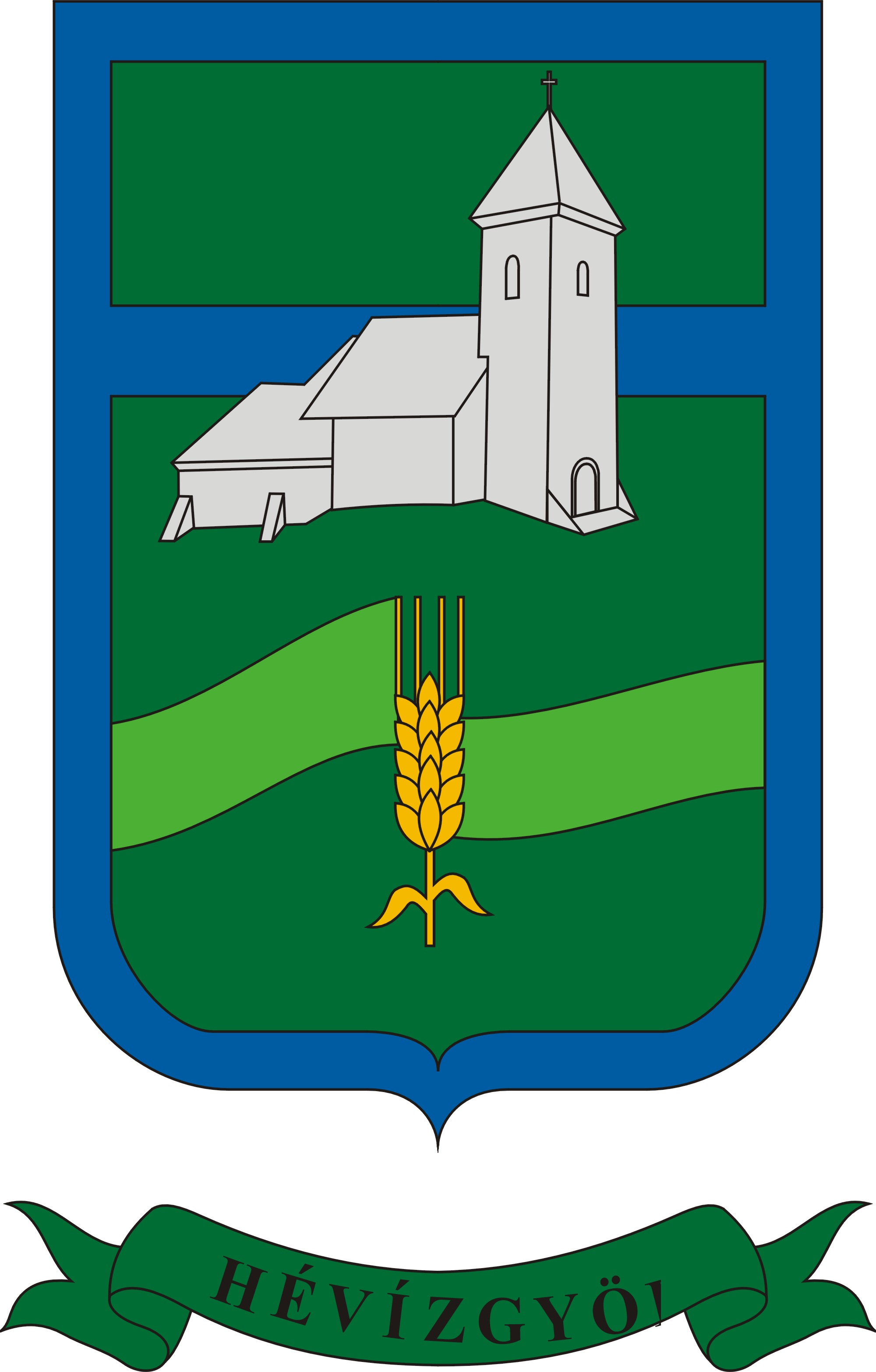 Coat of arms of Hévízgyörk, Hungary